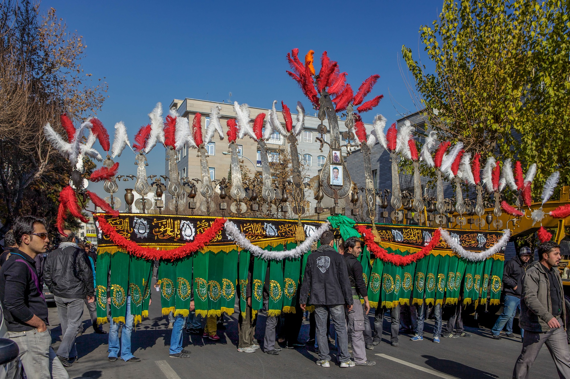 Ashura procession in Tehran, Iran, 16.12.2010